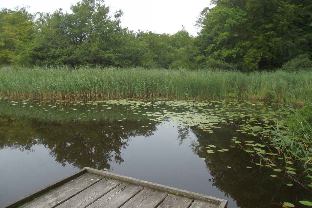 A pond in Teglstrup Hegn (Hellebæk, DK)